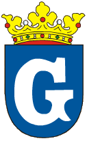 Coat of arms of Kraslice town, Sokolov District, Czech Republic.